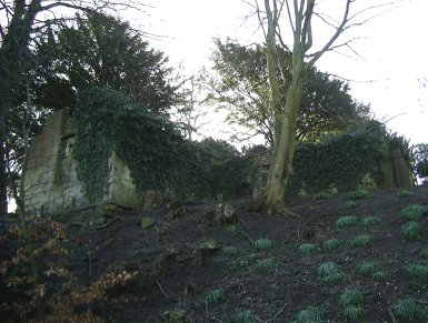 TheBourtreehillian, From my own collection